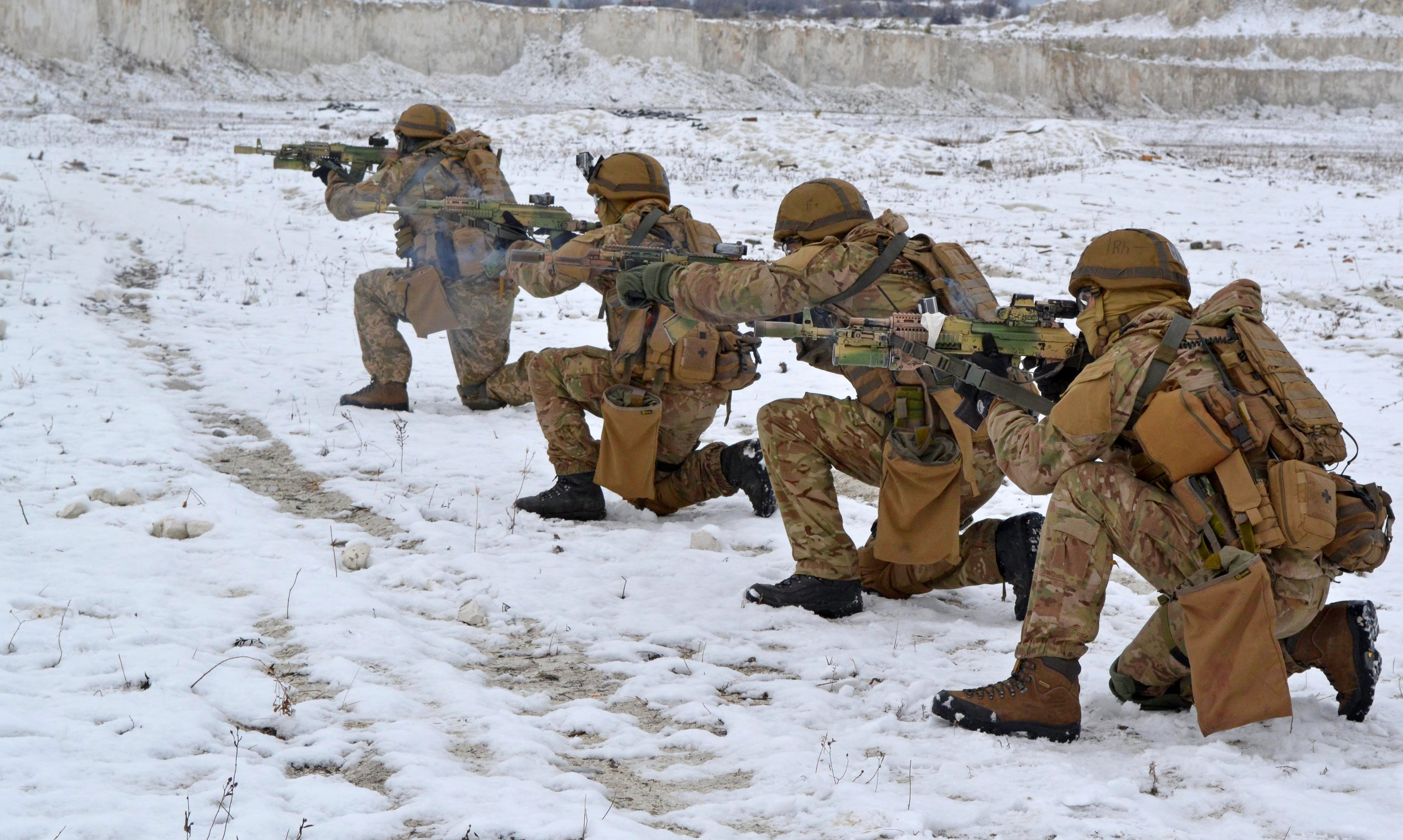 Special Forces by Andriy Ageev